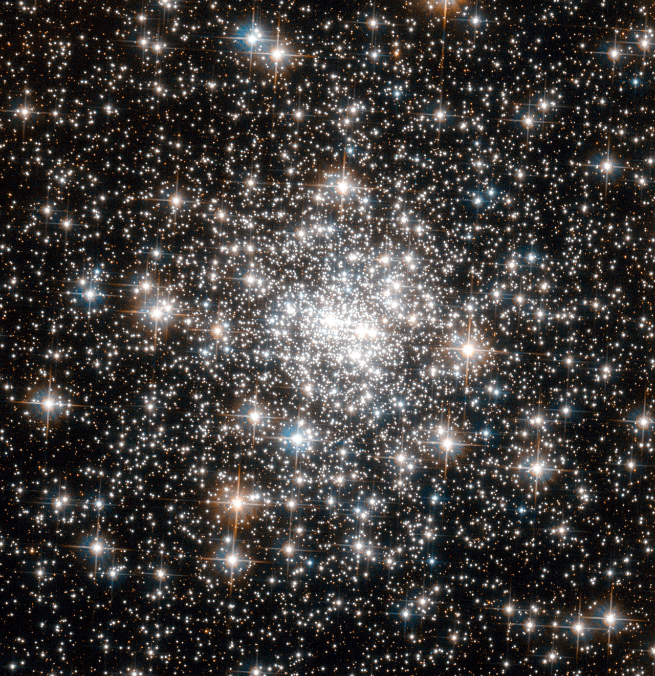 The compact nature of globular clusters is a double-edged sword. On the one hand, having so many stars of a similar age in one bundle gives astronomers insights into the chemical makeup of our galaxy in its early history. But, at the same time, the high density of stars in the cores of globulars also makes it difficult for astronomers to resolve individual stars. The core of NGC 6642, shown here in this Hubble Space Telescope image, is particularly dense, making this globular a difficult observational target for most telescopes. Furthermore, it occupies a very central position in our galaxy, which means that images inadvertently capture many stars that don’t belong to the cluster — these “field stars” just get in the way. However, using Hubble’s powerful Advanced Camera for Surveys (ACS), astronomers can identify and remove such distracting field stars, and resolve the cluster’s dense core in unprecedented detail. Using Hubble’s ACS, astronomers have already made many interesting finds about NGC 6642. For example, many “blue stragglers” (stars which seemingly lag behind in their rate of aging) have been spotted in this globular, and it is known to be lacking in low-mass stars. This picture was created from visible and infrared images taken with the Wide Field Channel of the Advanced Camera for Surveys. The field of view is approximately 1.6 by 1.6 arcminutes.